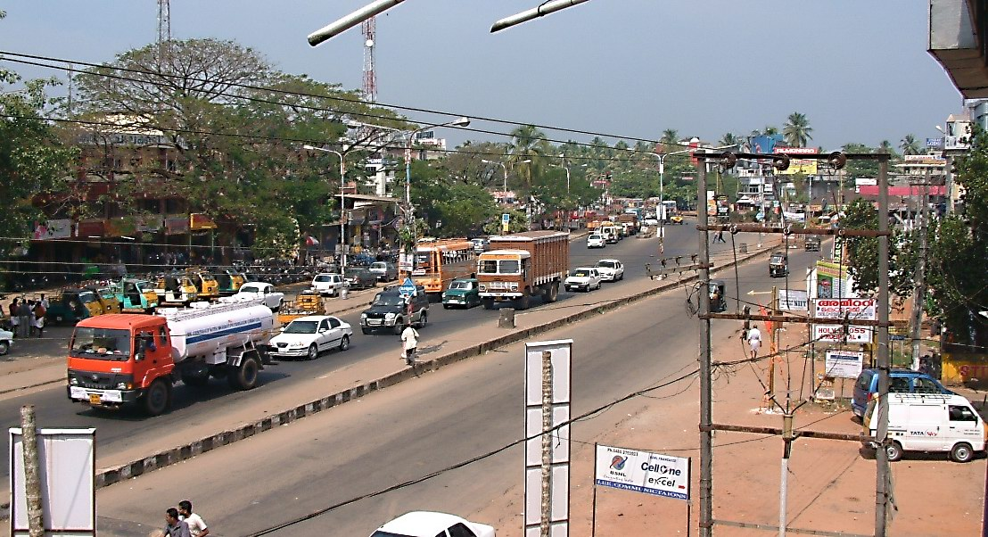 Chalakudy